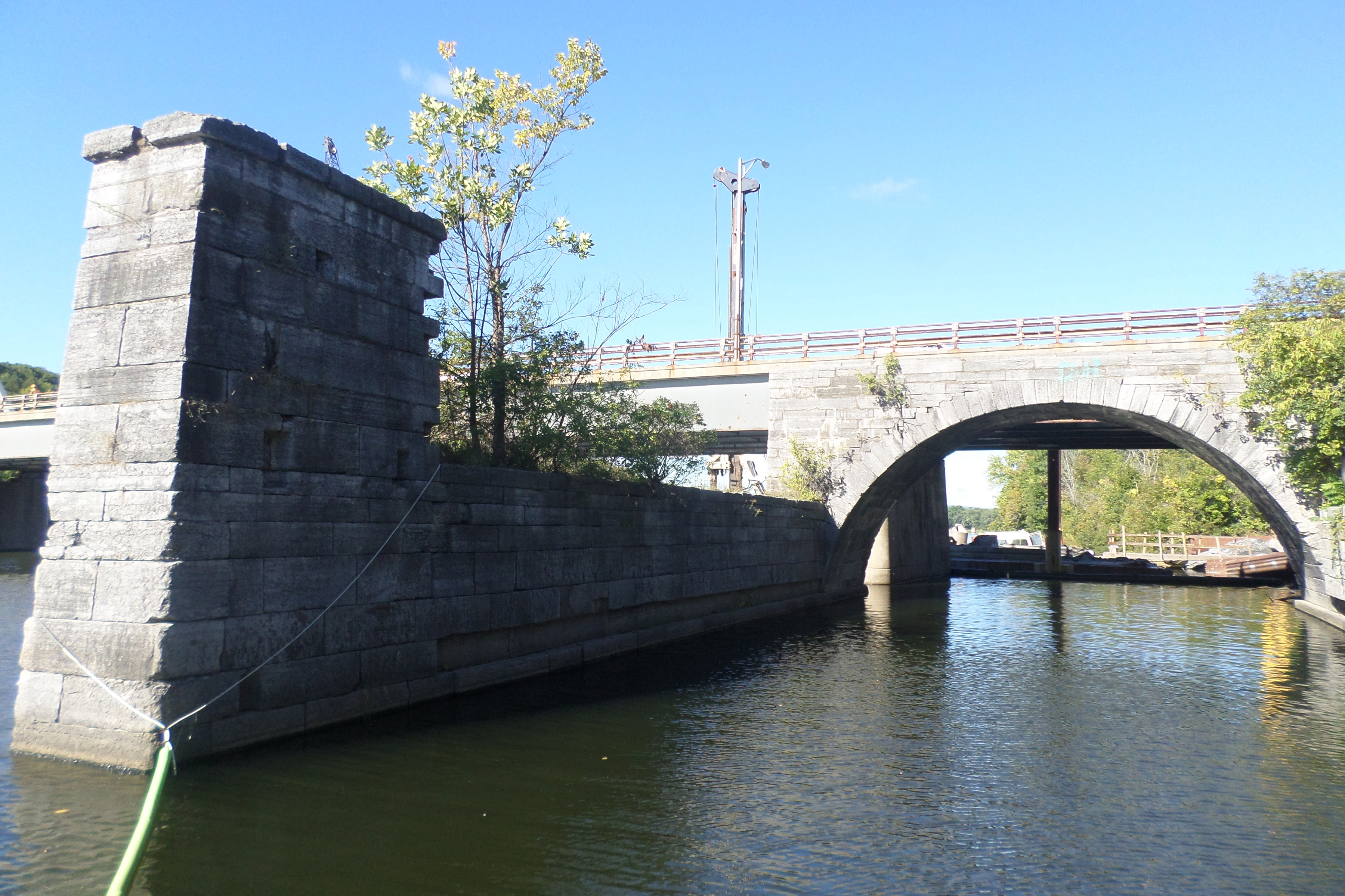 The Rexford Aqueduct, or "Upper Mohawk Aqueduct", carried the Erie Canal from the north side of the Mohawk River at Rexford, New York, to the south side in Niskayuna.